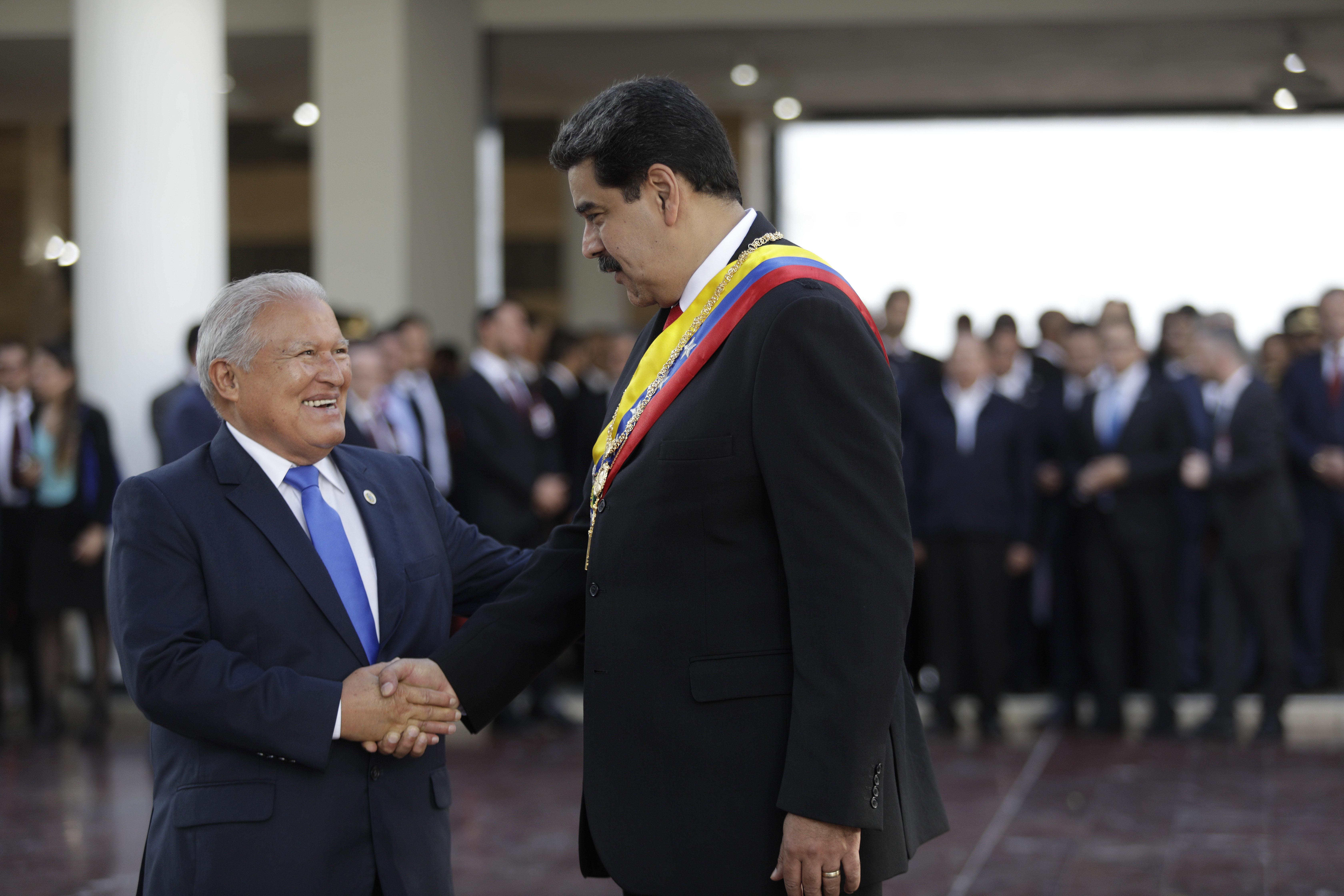 Meeting of Maduro with Sánchez at Maduro's second inauguration